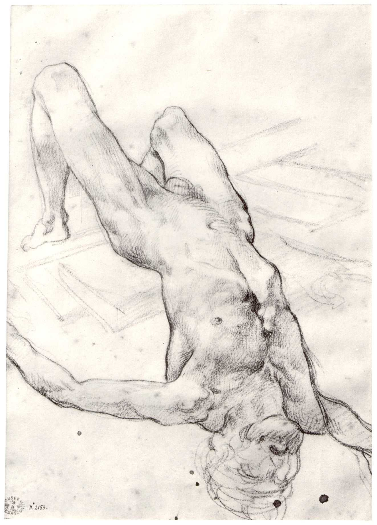 Géricault: figural study for the 'Raft of the Medusa', charcoal on paper, 289*205cm